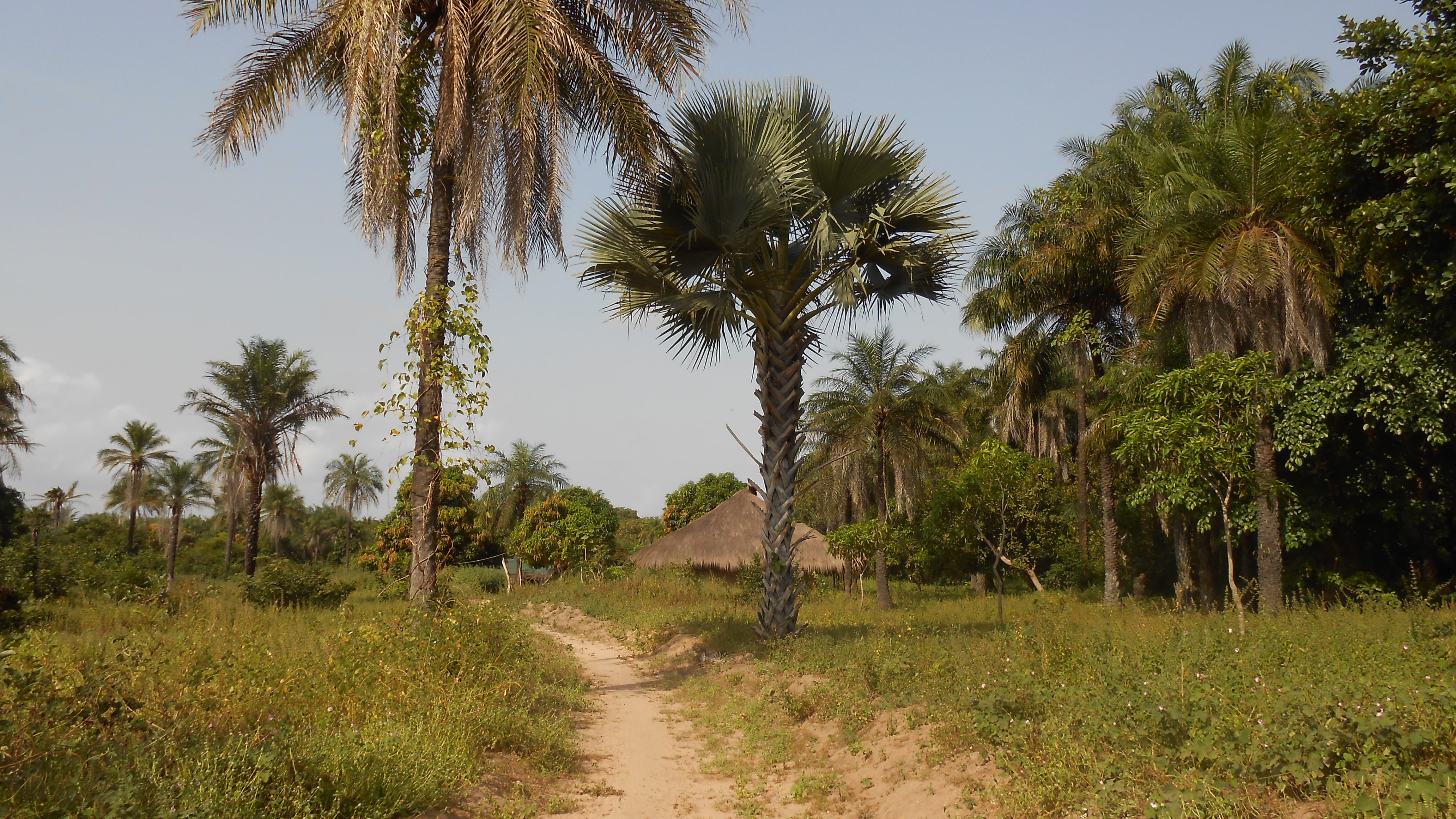 Landscape on the footpath from the village (tabanca) of Varela to the beach.